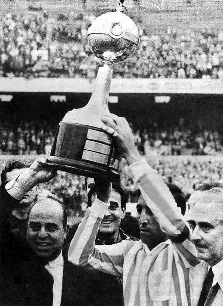 The Copa Libertadores tournament of 1967 was won by Racing Club of Argentina who beat Nacional of Uruguay.